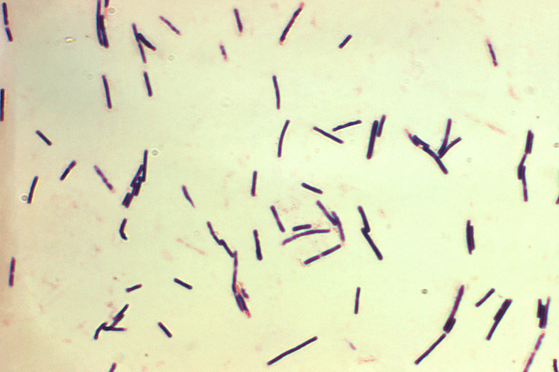 This photomicrograph reveals Clostridium perfringens grown in Schaedler’s broth using Gram-stain. Clostridium perfringens is a spore-forming, heat-resistant bacterium that can cause foodborne disease. The spores persist in the environment, and often contaminate raw food materials. These bacteria are found in mammalian feces, and soil.